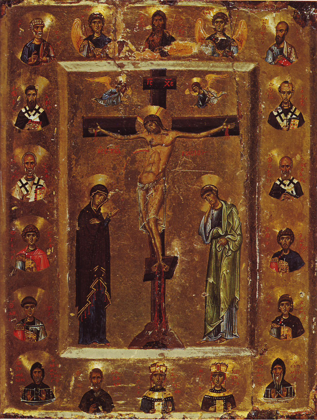 Crucifixion group: Icon in late Comnenos style, second half of 12th century. 28.2 x 21.6 cm